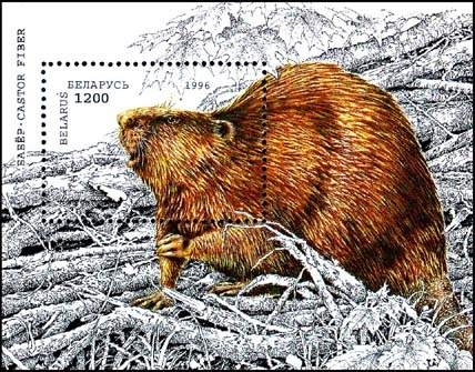 Stamp of Belarus